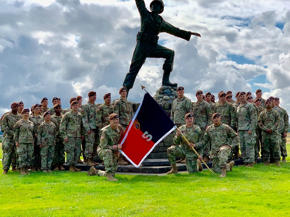 The men and women of 5th SFAB donned their brown berets for the first time today in a ceremony at JBLM's Iron Mike statue. The brown color signifies our commitment to "muddy boot" leadership, to being on the ground at home and abroad working hand in hand with our partner forces on the issues that most affect global security and the preservation of freedom.